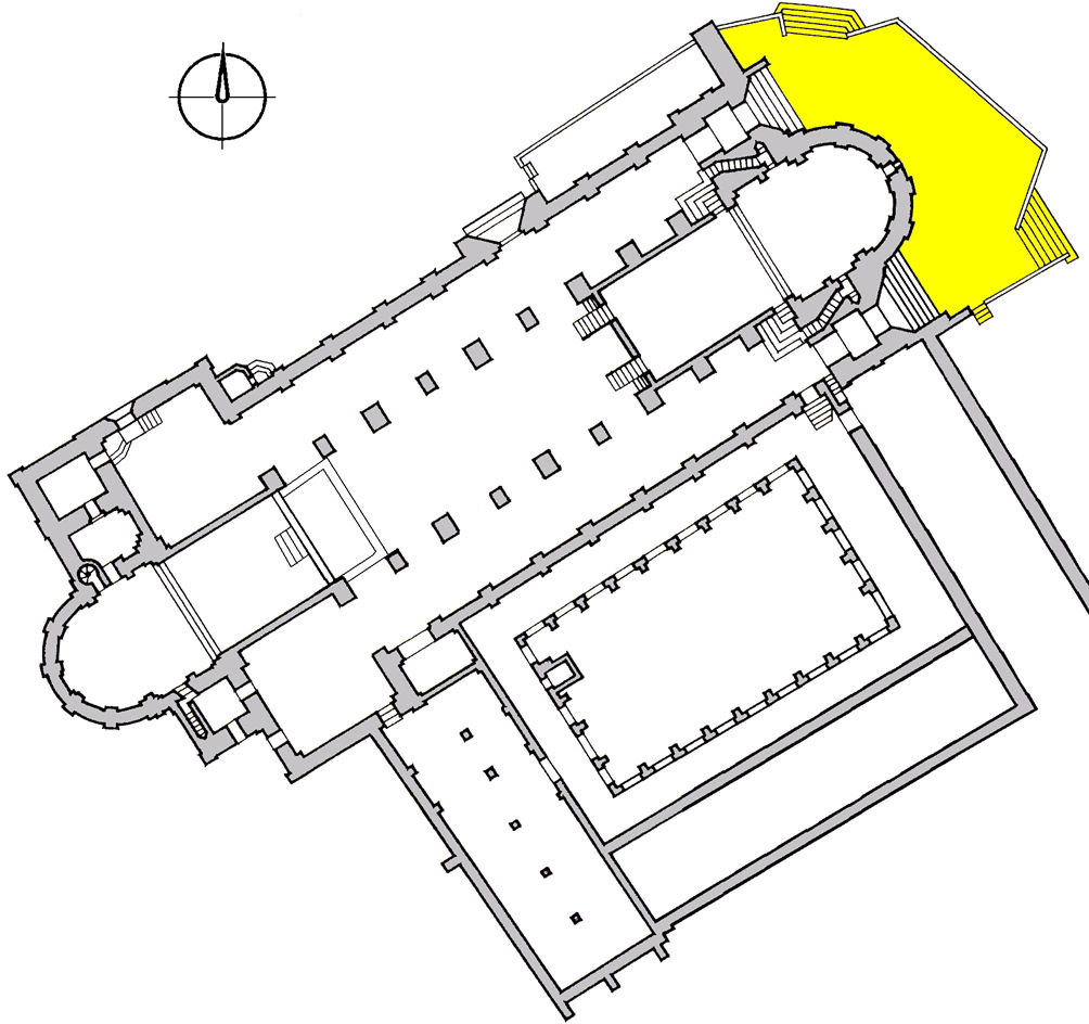 cathedral of Bamberg, Germany